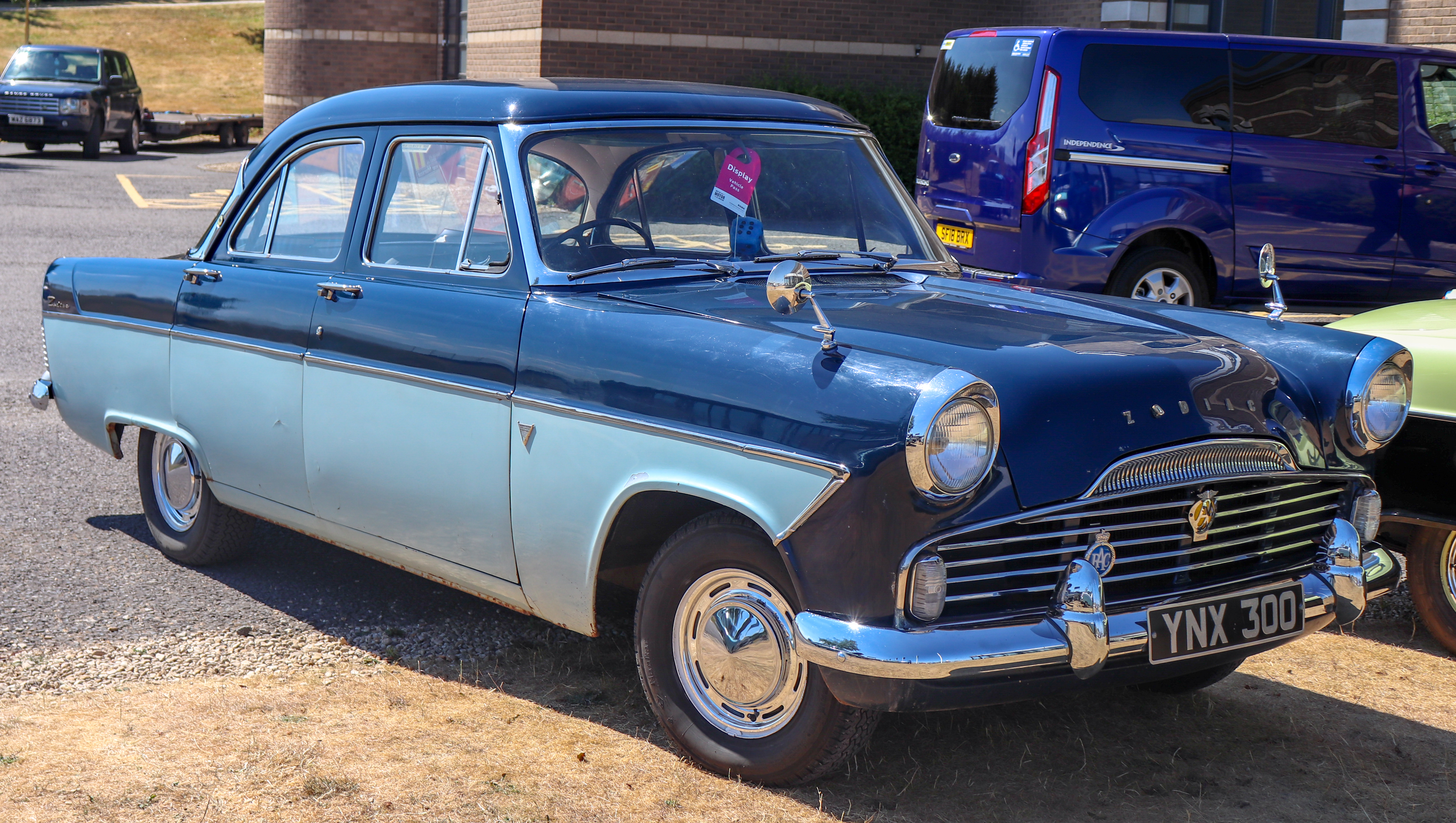 1958 Ford Zodiac Mark II 2.5 Front Taken at the British Motor Museum Old Ford Rally 2018, Gaydon